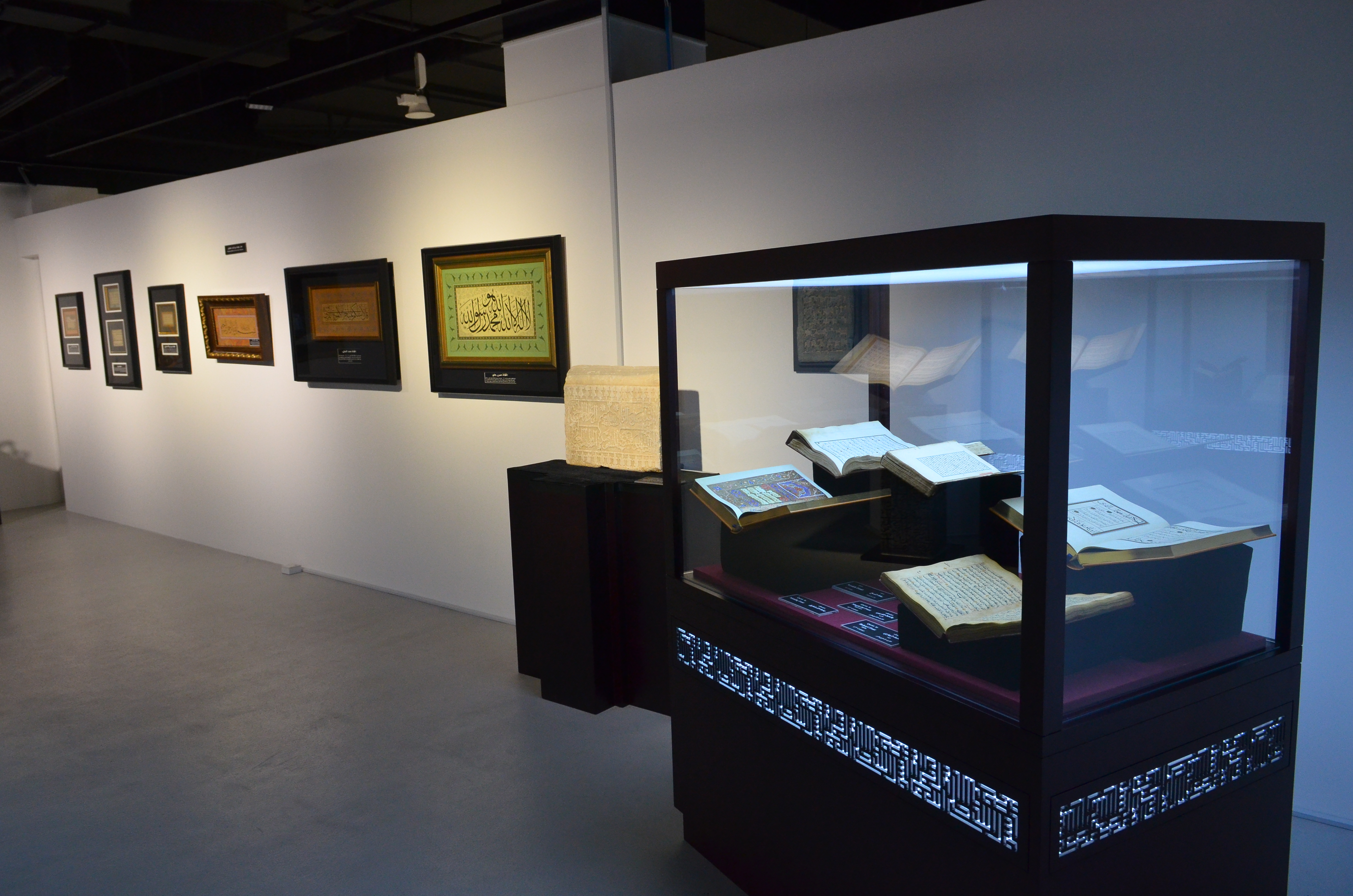 "Journey of Quran and Arabic Calligraphy" exhibition, Ibrahim Al Fakhro collection, Doha-Qatar